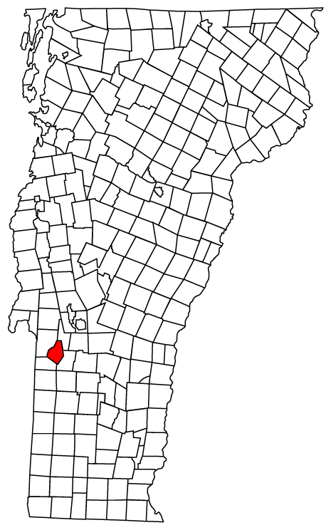 Description: Map of Vermont towns with Middletown highlighted Source: Map created by Jared C. Benedict on 26 March 2004. Copyright: © Jared C. Benedict.